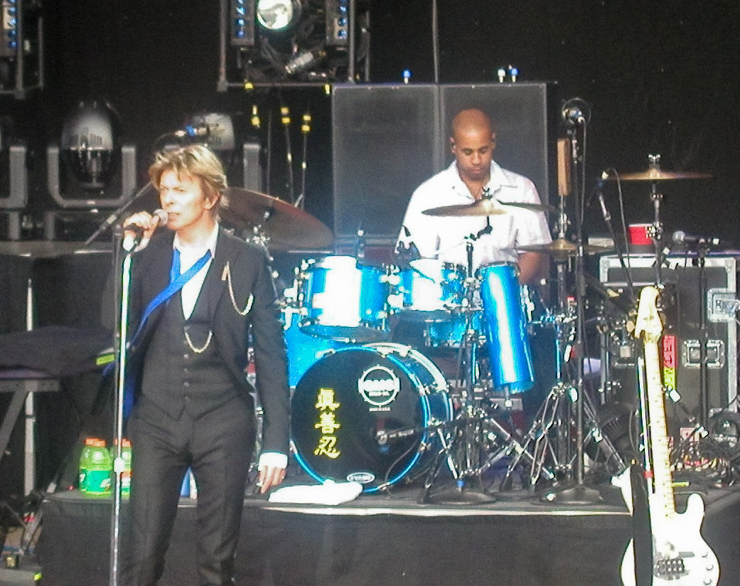 David Bowie & Band @ Area2 Festival, Heathen Tour Backing Band for David Bowie, with Sterling Campbell on the drums, San Francisco